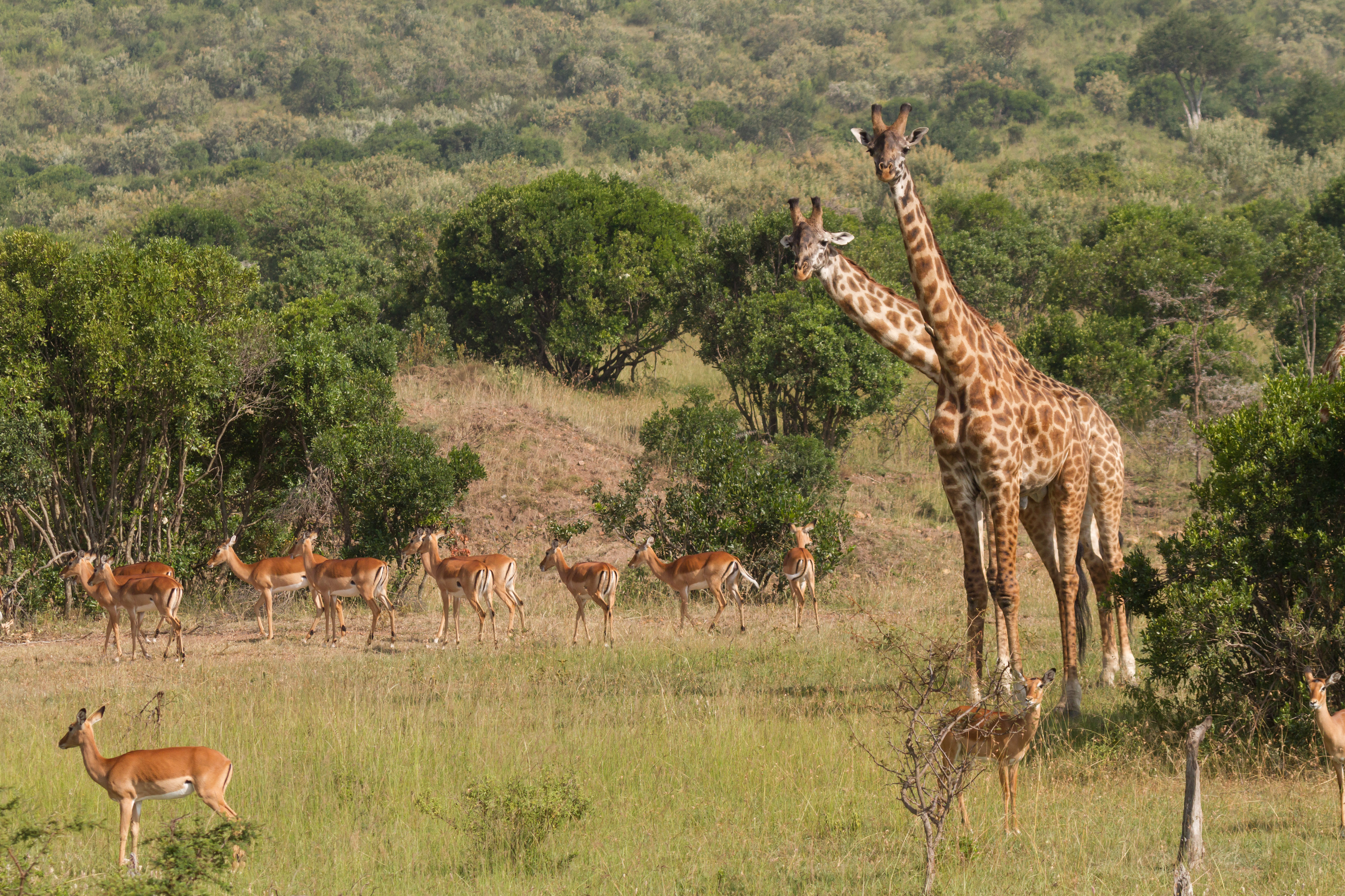 Herd of impalas with a pair of giraffes. The impalas are targeted by a cheetah, but the giraffes here act as a control tower device. Taken in Masai Mara national park, southwest Kenya.